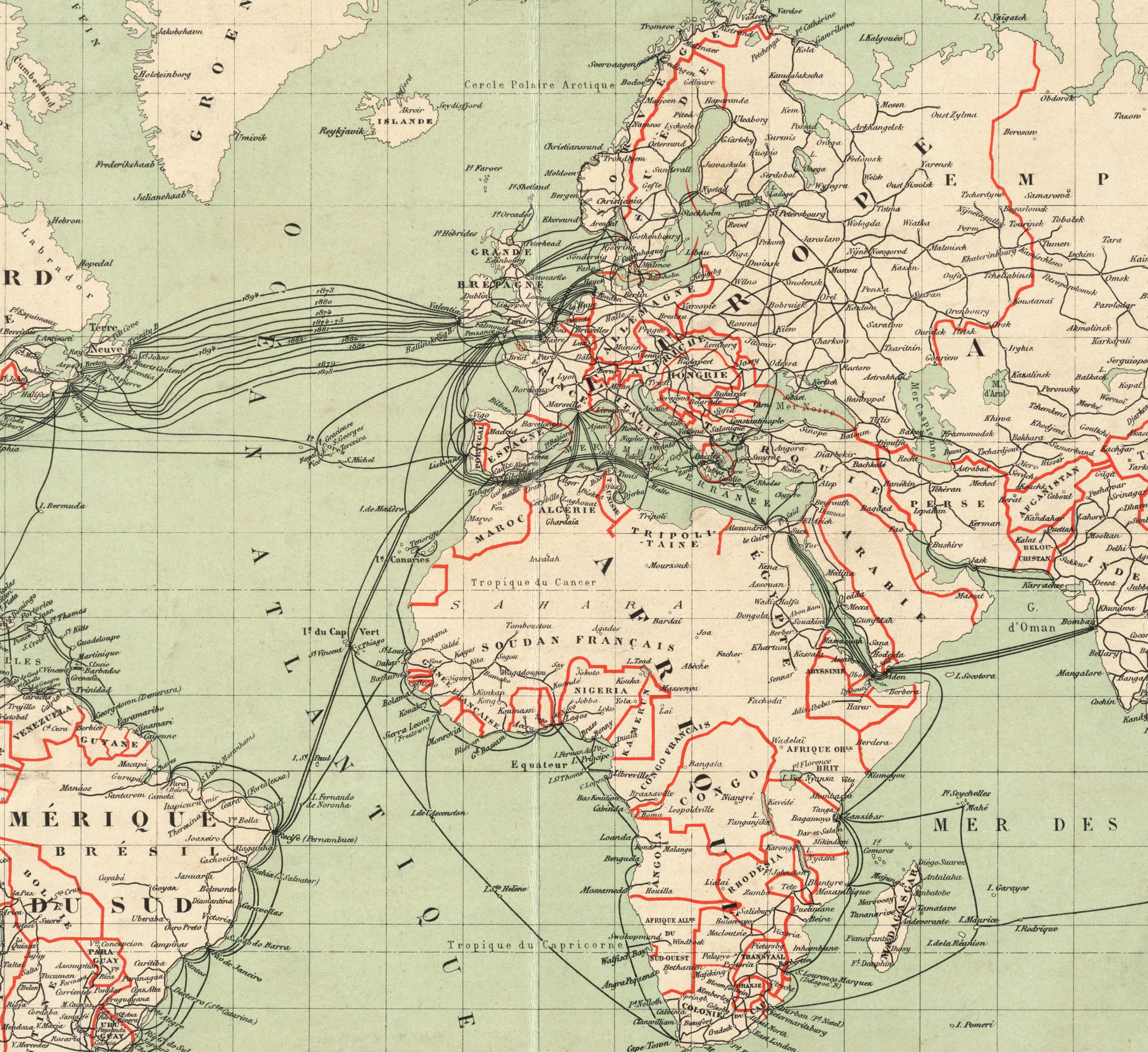 Part of Swiss 1901 map of Telegraph lines in the world Kiswahili: Sehemu ya ramani ya 1901 kutoka Uswisi ianyoonyesha nyaya za telegrafu duniani